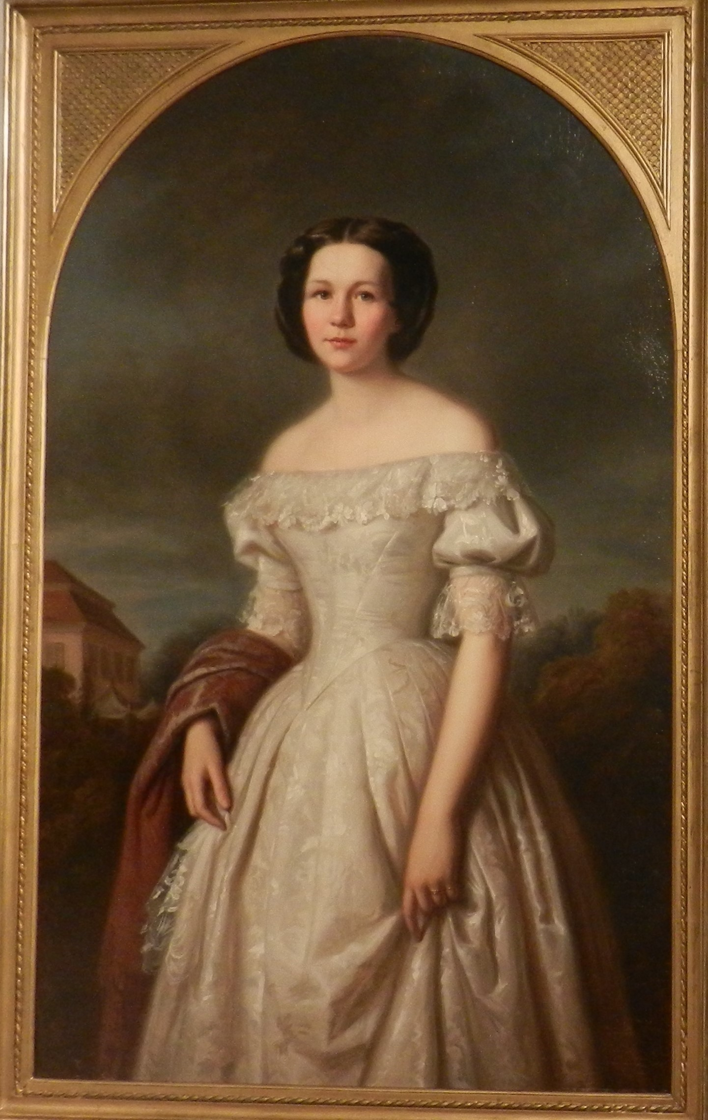 Portret of Berta Elisabeth von Schroeter, 1856